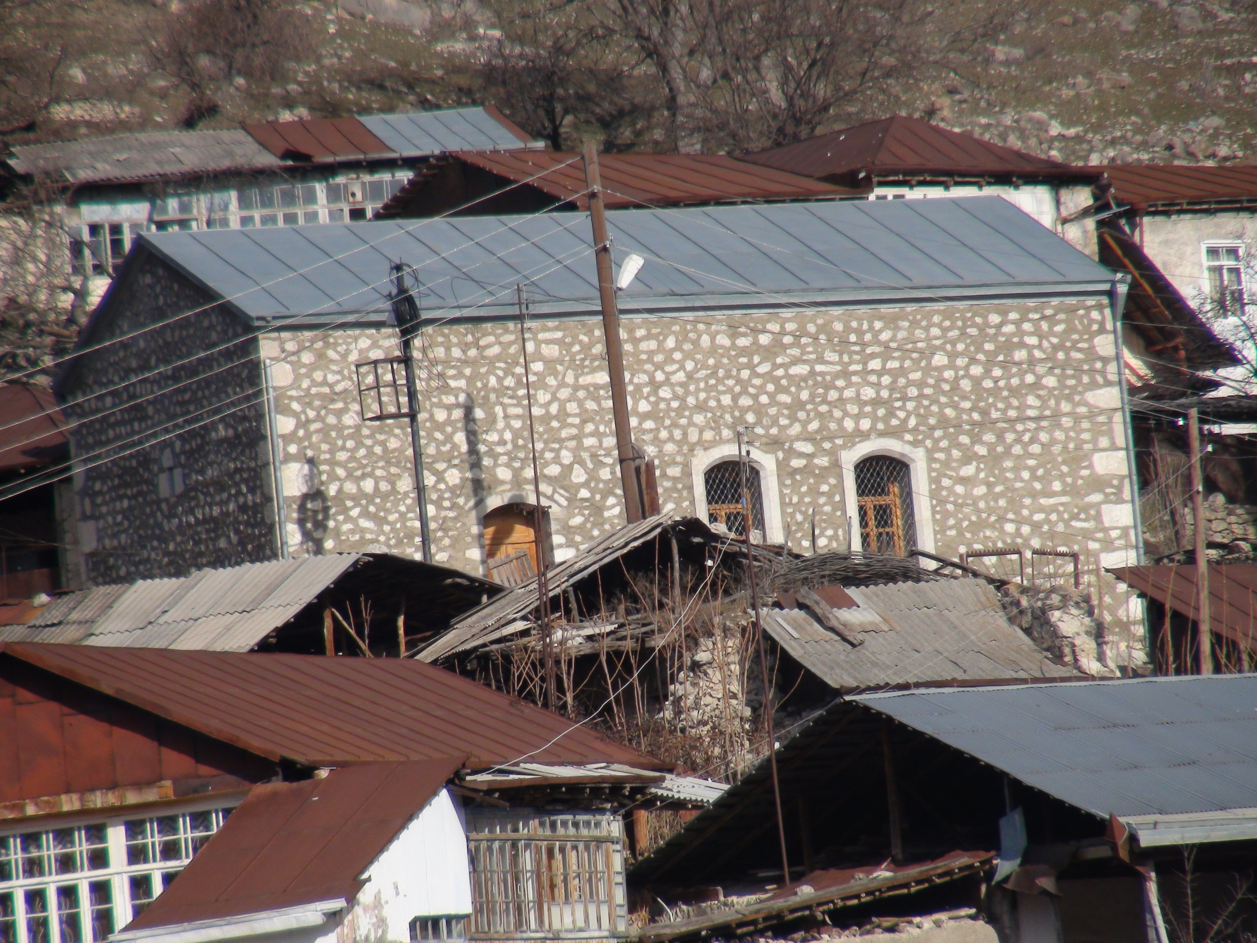 st. Astvacacin church